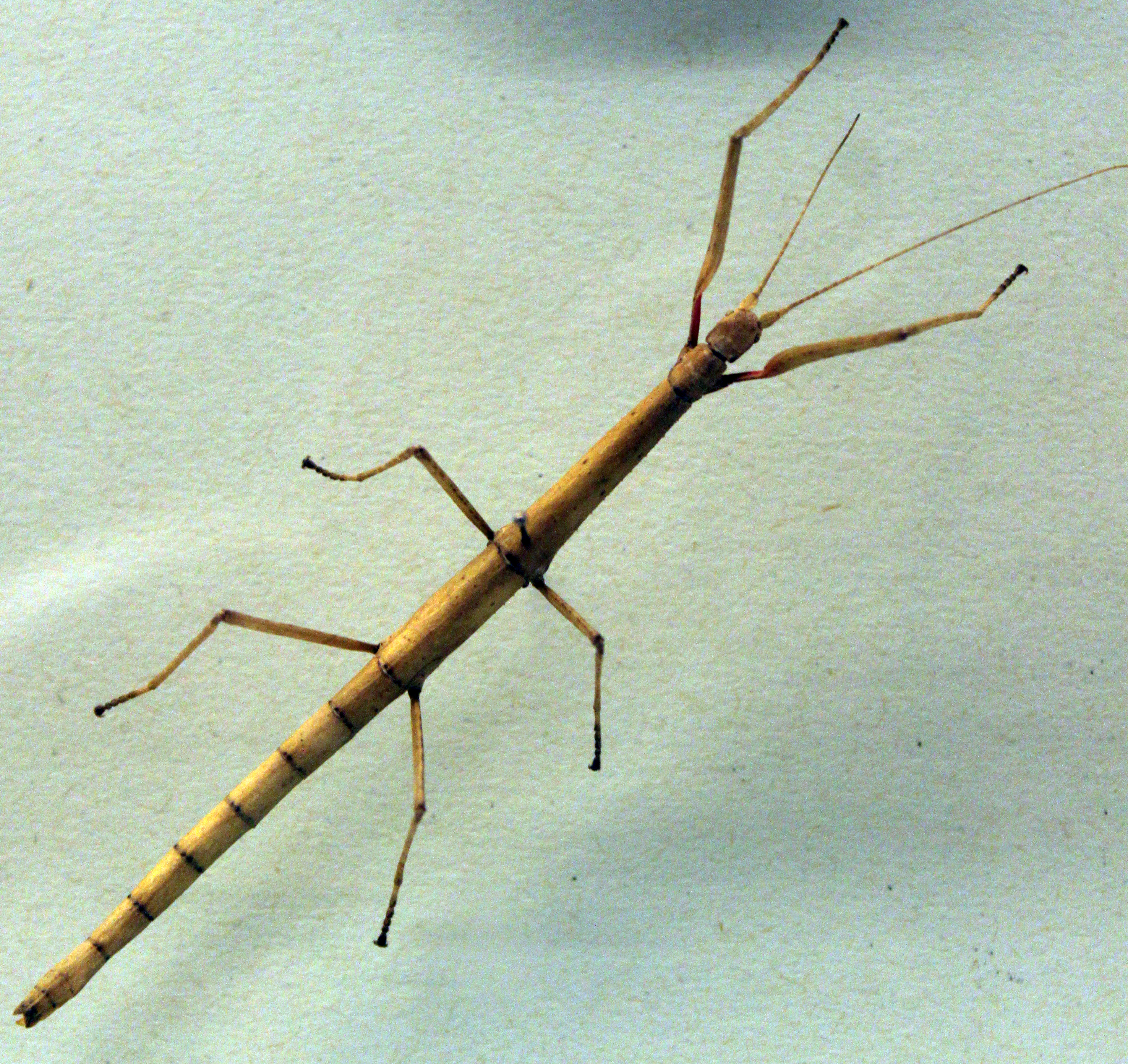 Indian Stick Insect (carausius morosus), Museum of Natural History Berlin